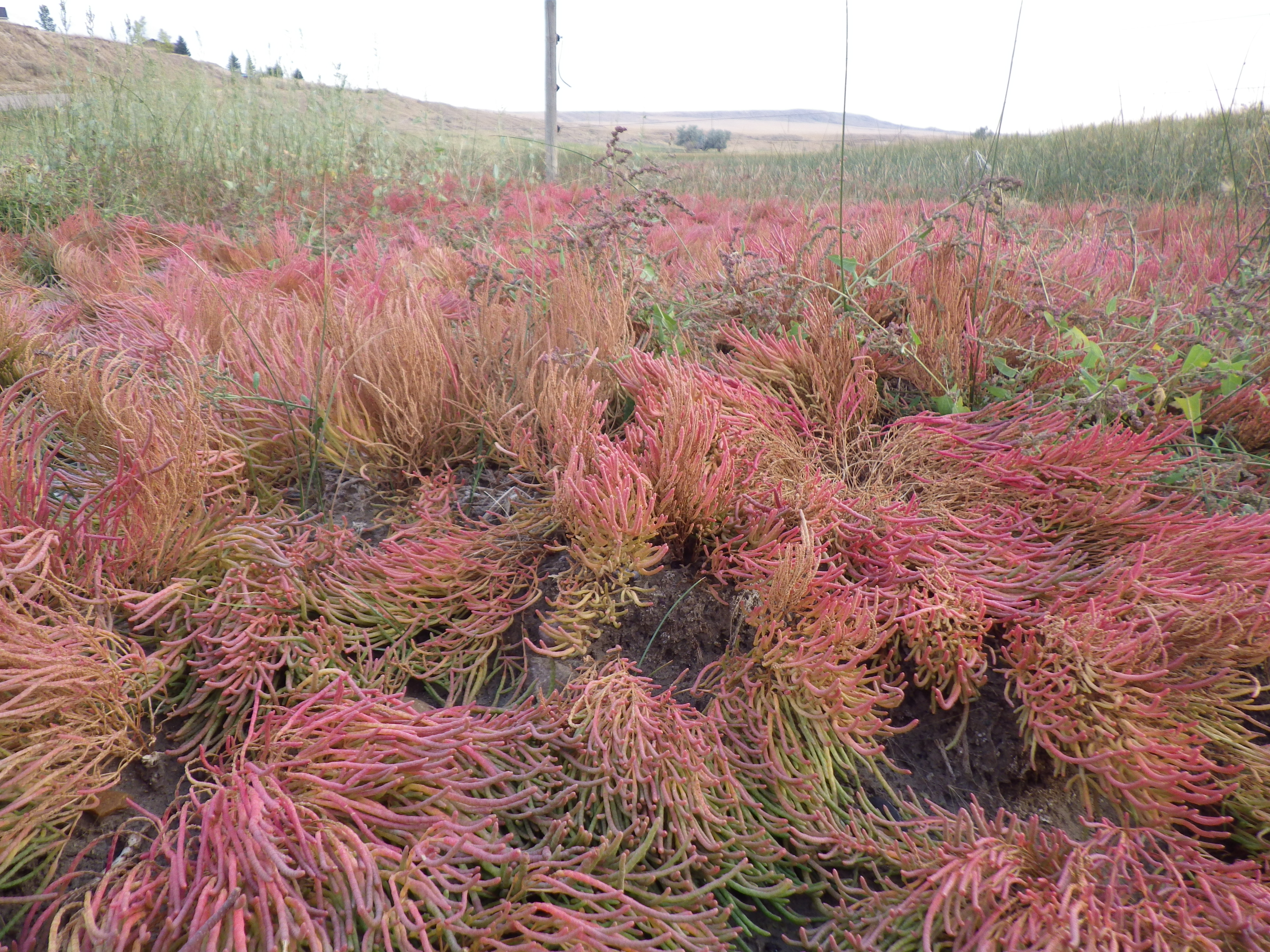 The most bright reddish infloresences (with opposite branching) of plants tracking saline seeps are distinctive of this species.